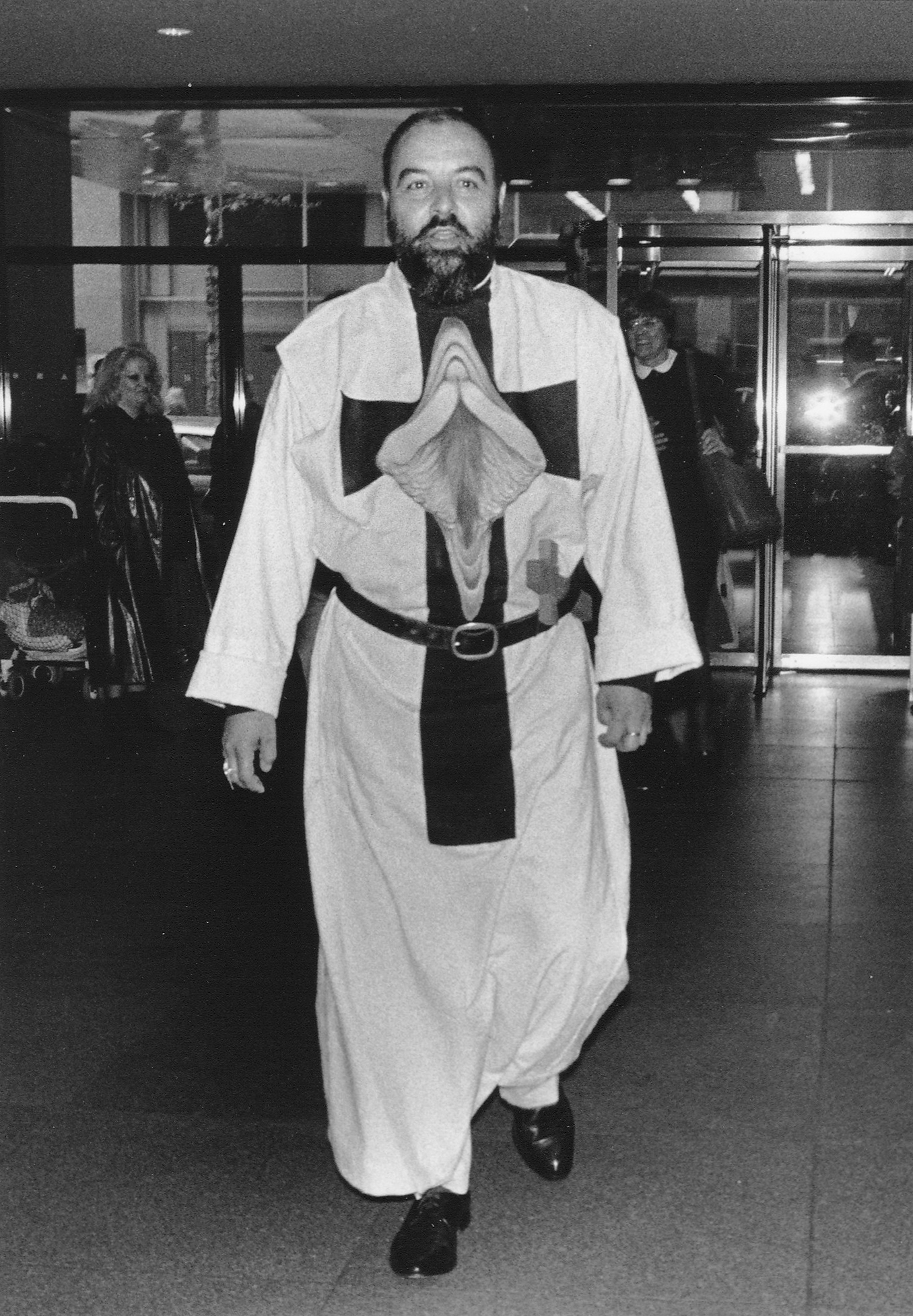 Rene "I AM THE BEST ARTIST" Moncada enters New York's Museum of Modern Art the day of his "E Vent", whereby he claimed his artwork titled "Vent Elation" on permanent display as part of the museum's collection, May 5, 1988.